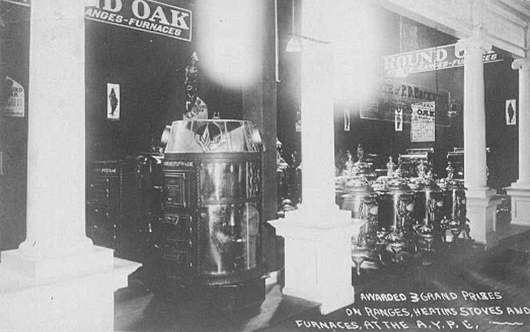 Caption on image: Awarded 3 Grand Prizes on ranges, heating stoves and furnaces. At the A.Y.P.E. PH Coll 777 Oakes.2 Subjects (LCSH): Stoves--Washington (State)--Seattle; Heating--Washington (State)--Seattle; Furnaces--Washington (State)--Seattle; Awards--Washington (State)--Seattle; Alaska-Yukon-Pacific Exposition (1909 : Seattle, Wash.) Exhibit shows products and awards of the Round Oak Stove Company.